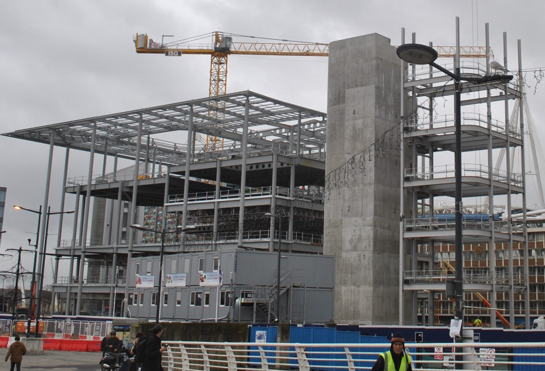 During construction of the BBC Wales HQ, Central Sq, Cardiff